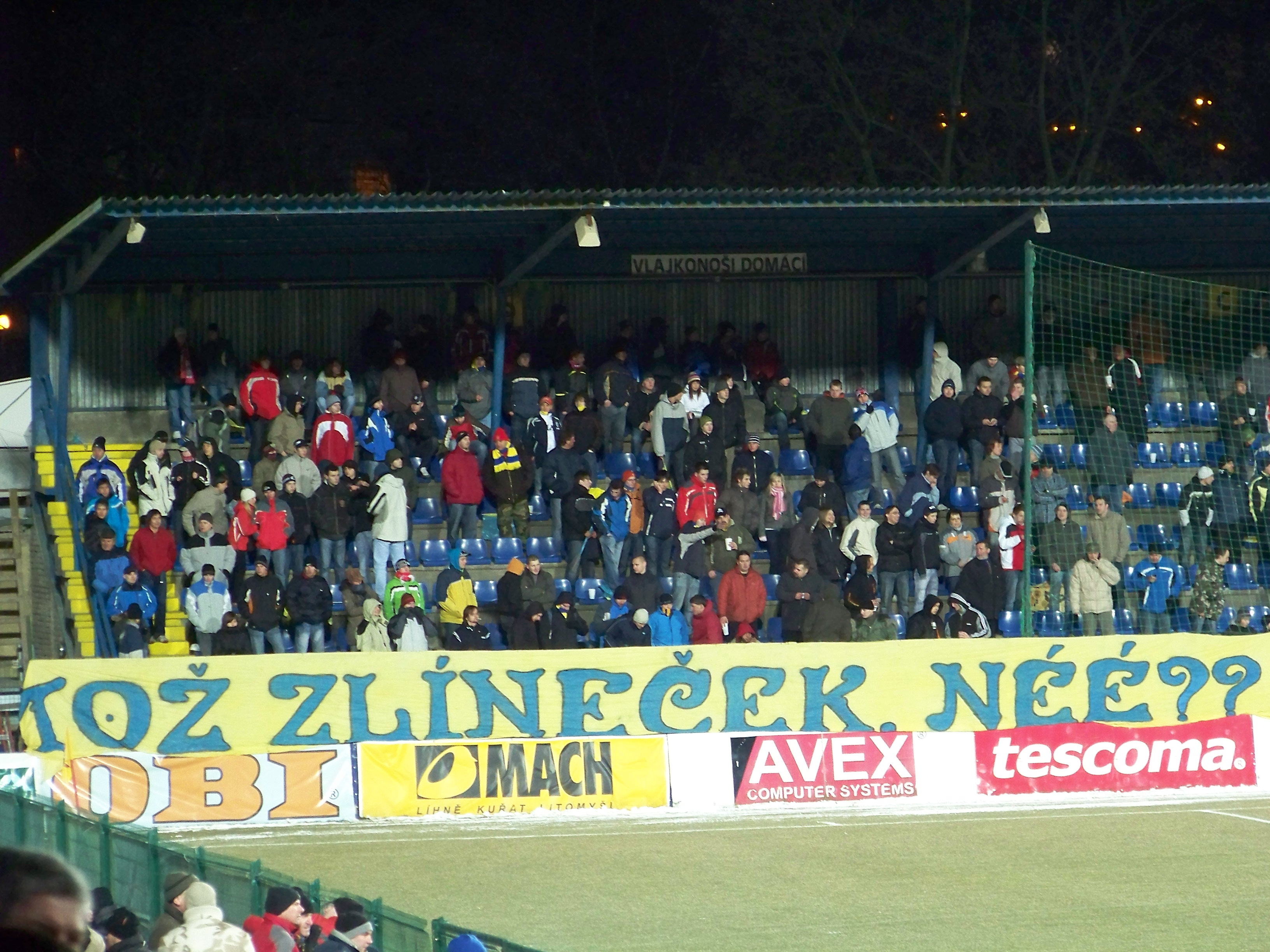 Suppoters of Zlín on the south stand of Letná Stadium during a home match